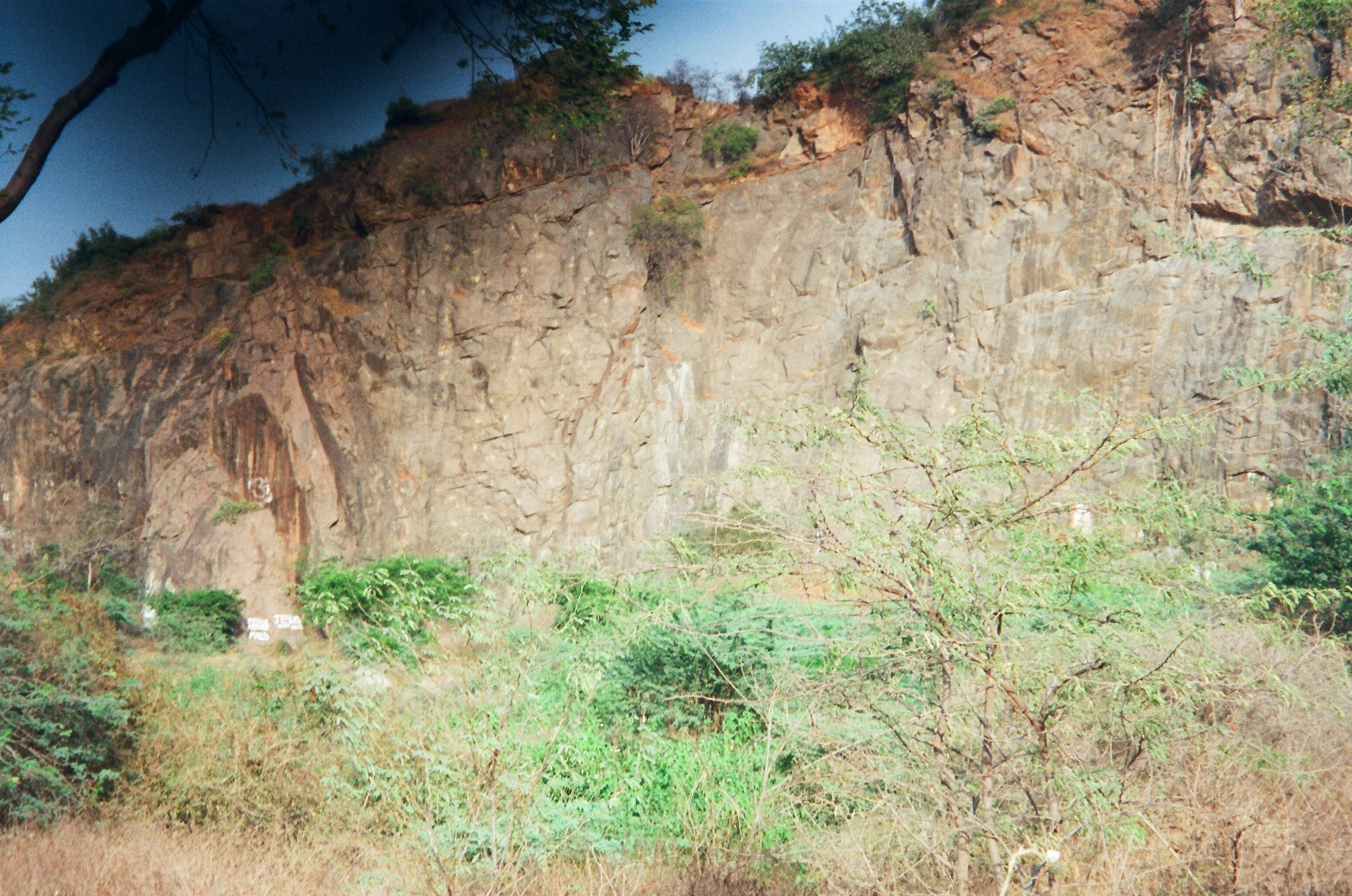 Charnockite rock exposure at Pallavaram quarries